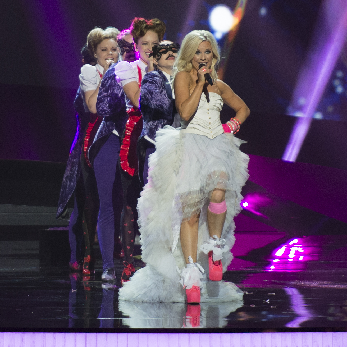 Krista Siegfrids representing Finland with the song "Marry Me" during the second dress rehearsal of the second semi final of the Eurovision Song Contest 2013 in Malmö. (Help translate this text)